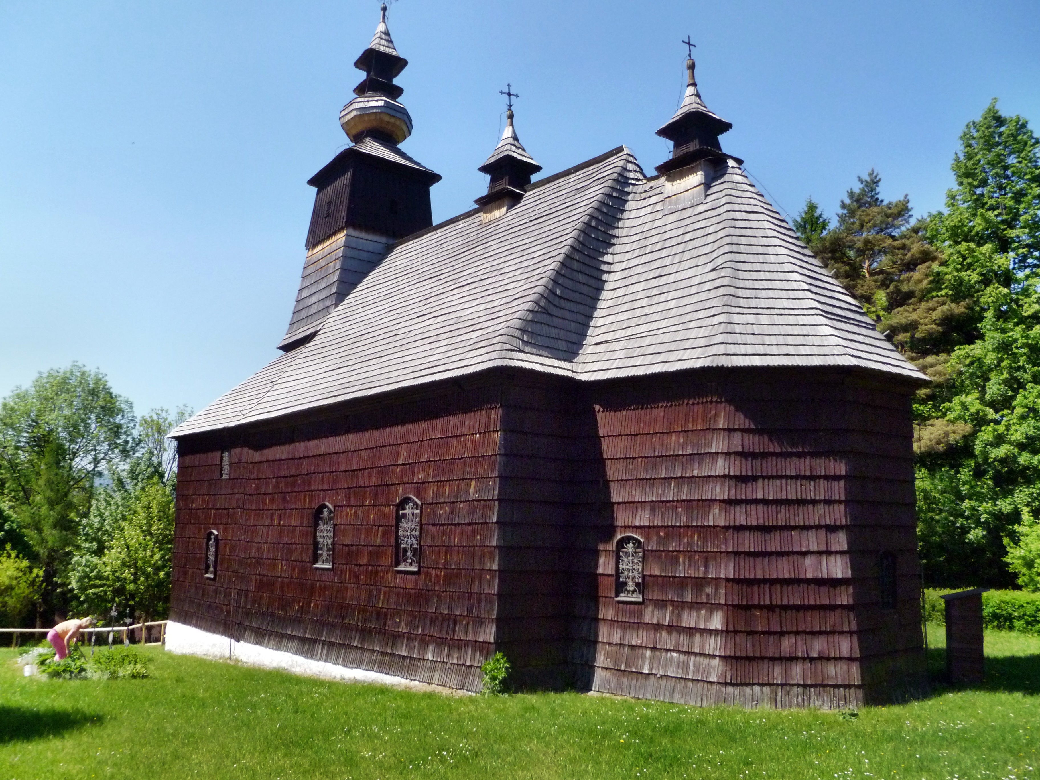 Rear view of the Greek-Catholic Church of Saint Michael Archangel in the open-air museum of Ľubovňa (Slovakia)